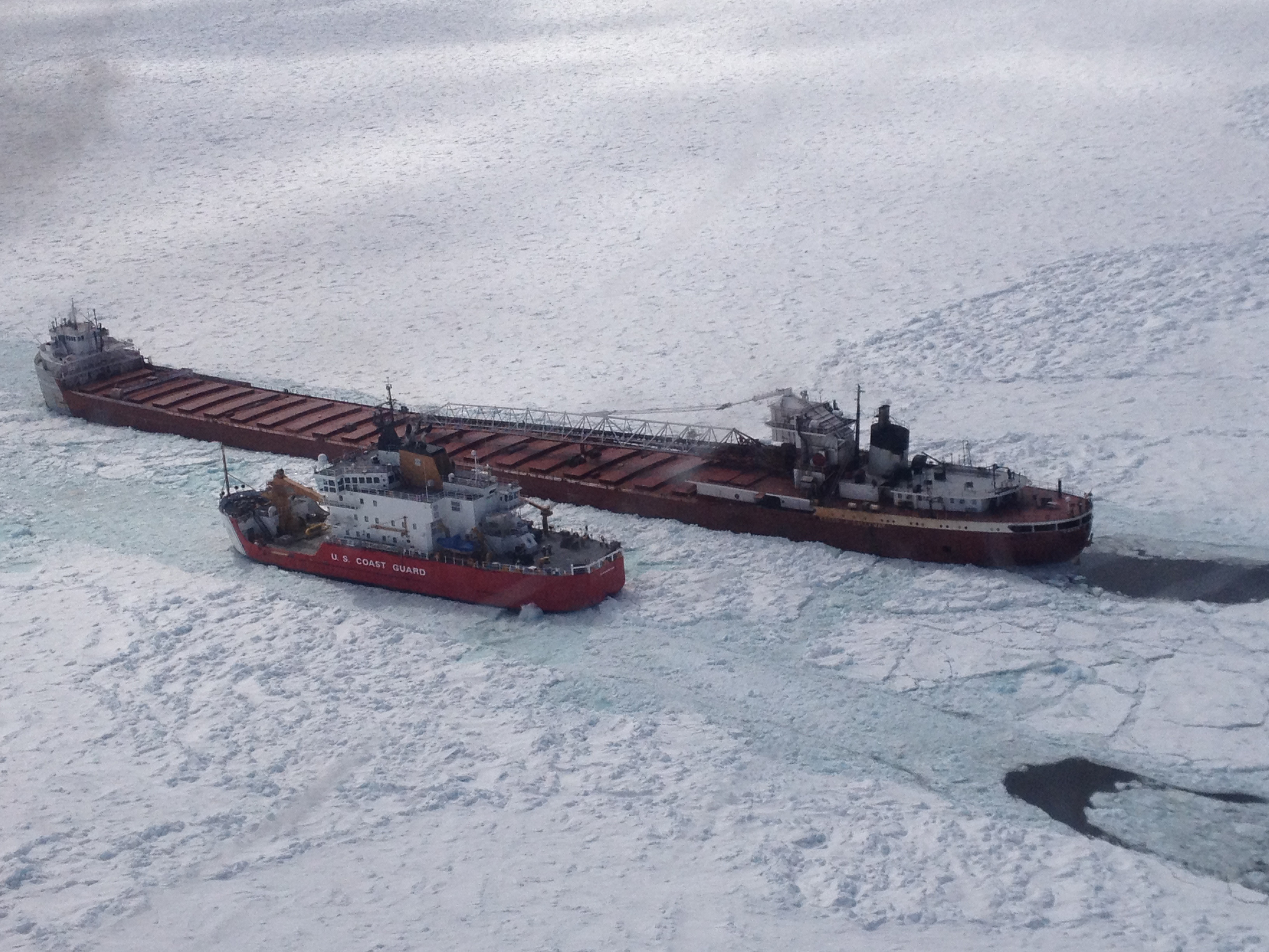 The crew of Coast Guard Cutter Mackinaw, homeported in Cheboygan, Mich., conducts an escort on Lake Superior near Whitefish Point April 3, 2014. The Mackinaw crew worked together with the crew of Canadian Coast Guard Ship Pierre Radisson, homeported in Quebec City, as part of an ongoing bi-national agreement between the U.S. and Canada, to break sheet ice that was nearly 40 inches thick.